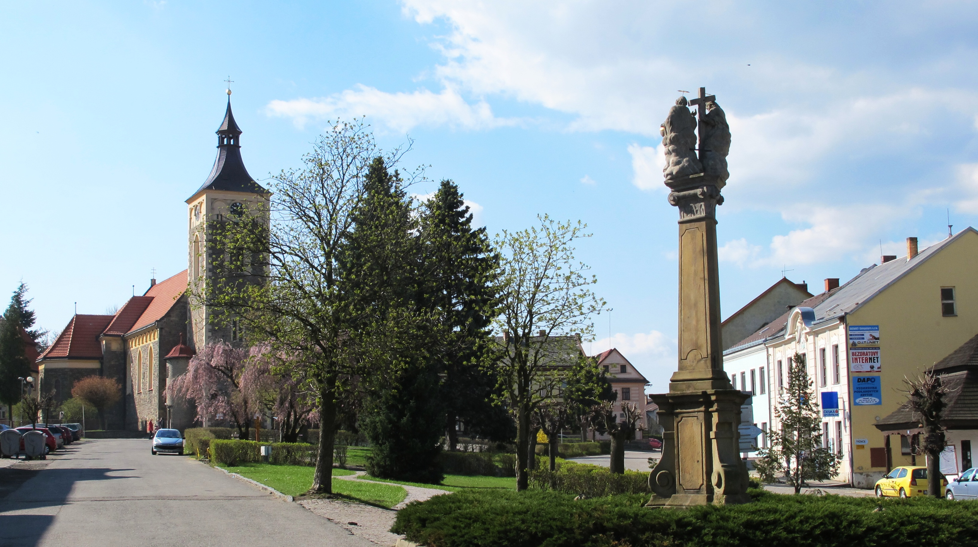 square in Proseč, column and St. Nicholas Church